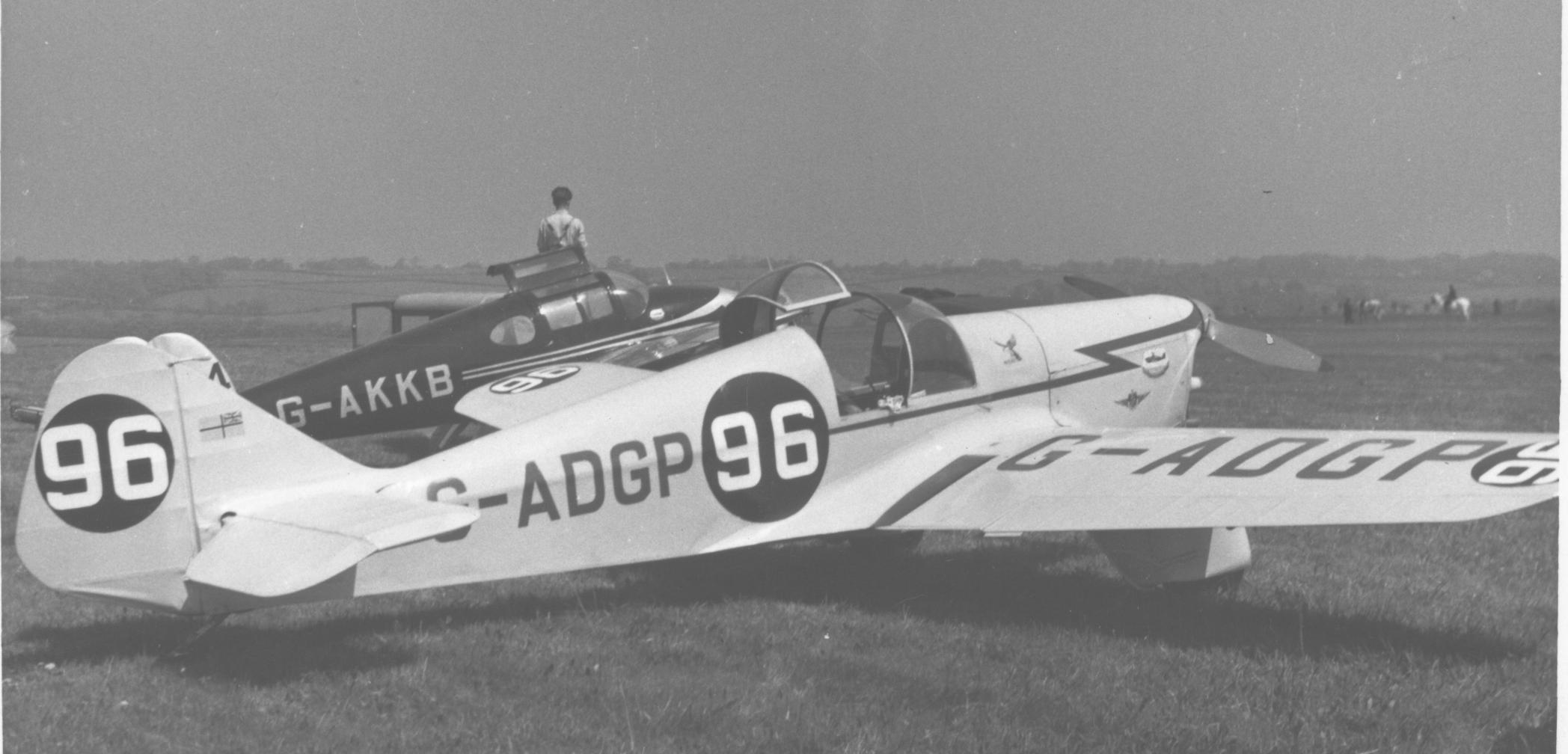 Miles M.2L Hawk Speed Six wearing racing No. 96 at Leeda (Yeadon) Airport in May 1955